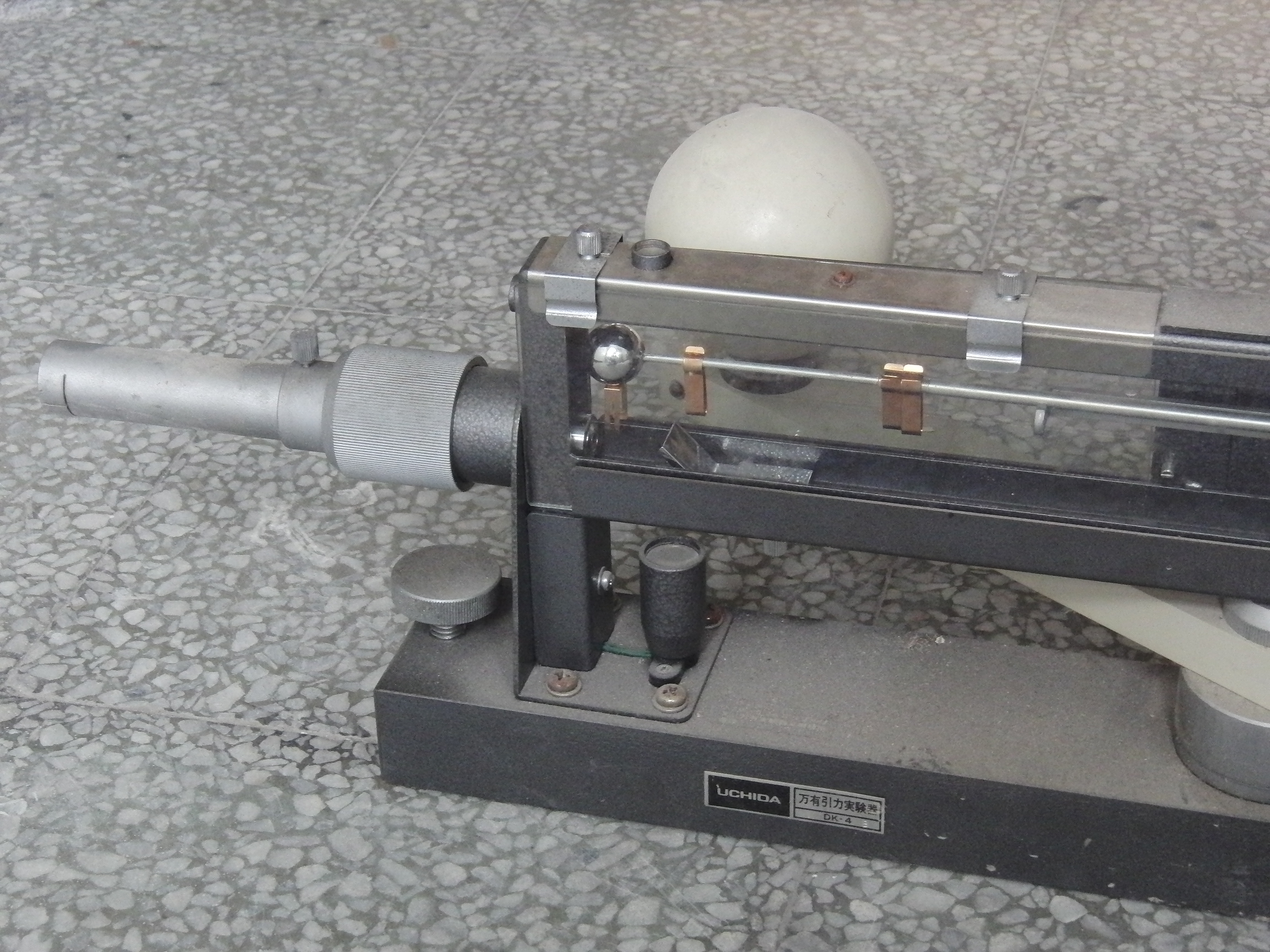 Cavendish experiment (torsion balance)